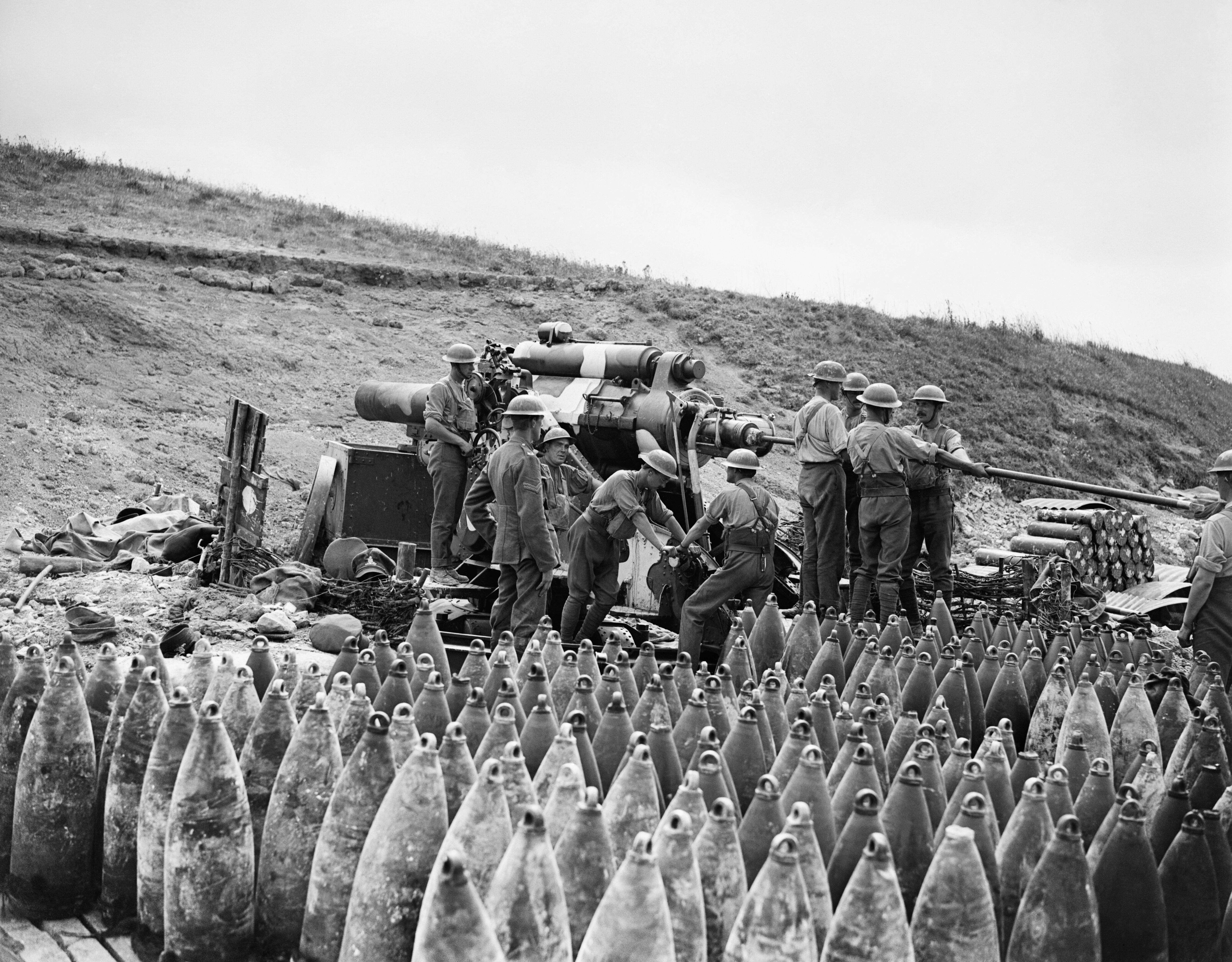 The Hundred Days Offensive, August-november 1918 Men of the 95th Siege Battery RGA loading a 9.2 inch howitzer near Bayencourt during the Battle of Amiens, 8 August 1918.